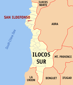 Map of Ilocos Sur showing the location of San Ildefonso